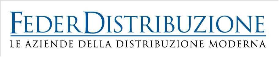 Logo Federdistribuzione